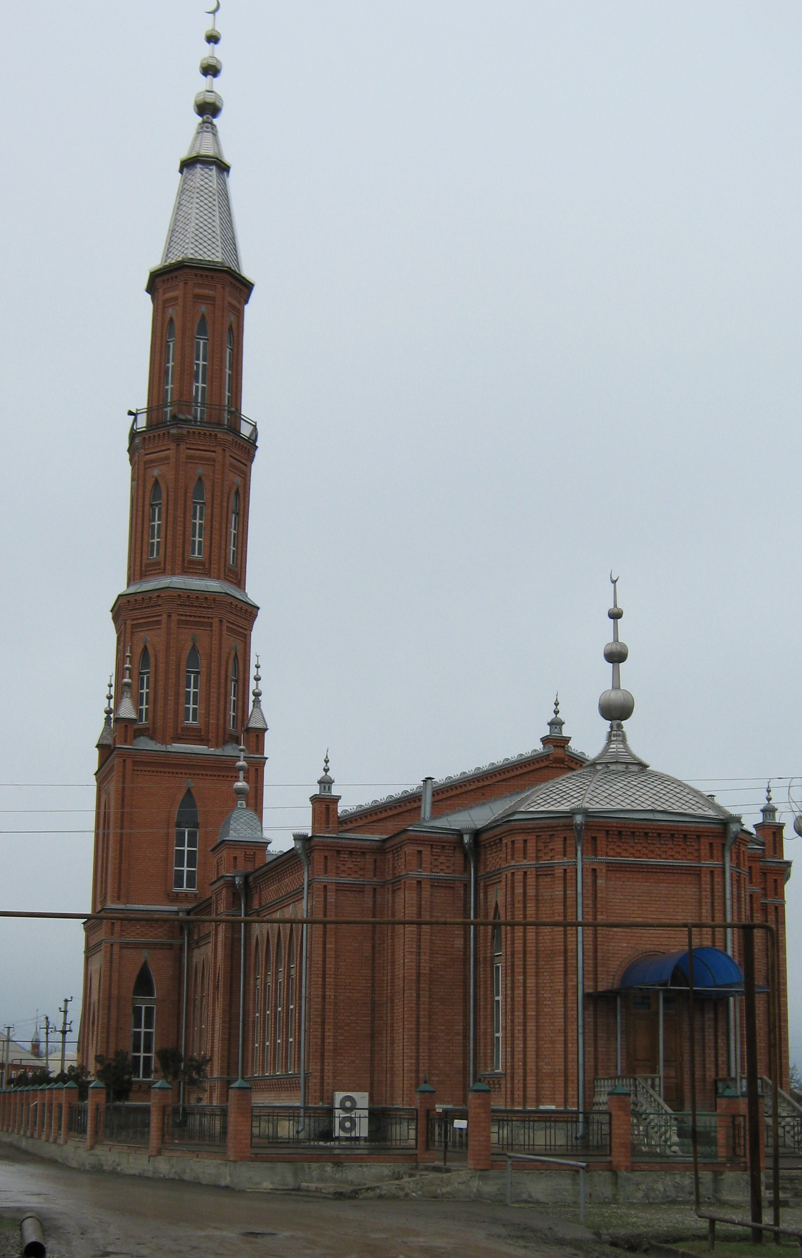 The mosque is located in the village of Tolstoy-Yurt